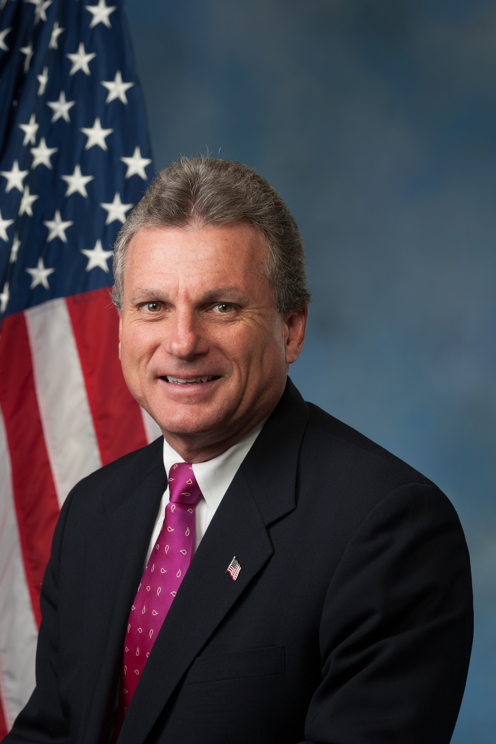 US Rep Buddy Carter